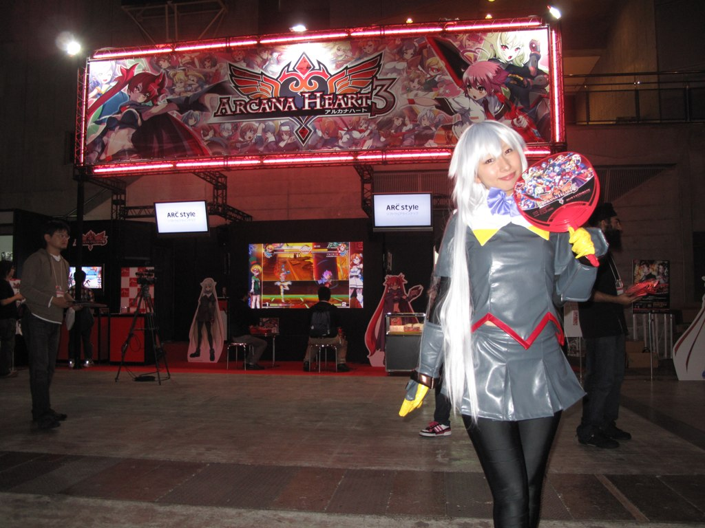 Taken on September 17, 2010 Canon PowerShot G10